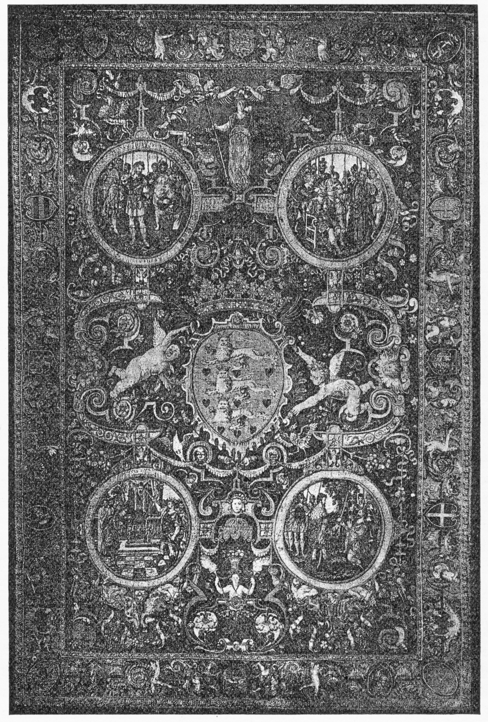 The canopy of estate of Frederick II of Denmark and Norway. Tapestry woven by Hans Knieper, 1586. The tapestry depicted here forms the top of the canopy. Swedish war booty from Kronborg Castle, Denmark, now located in the National Museum of Sweden, Stockholm.